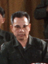 Colonel General Trần Văn Trà, 1973